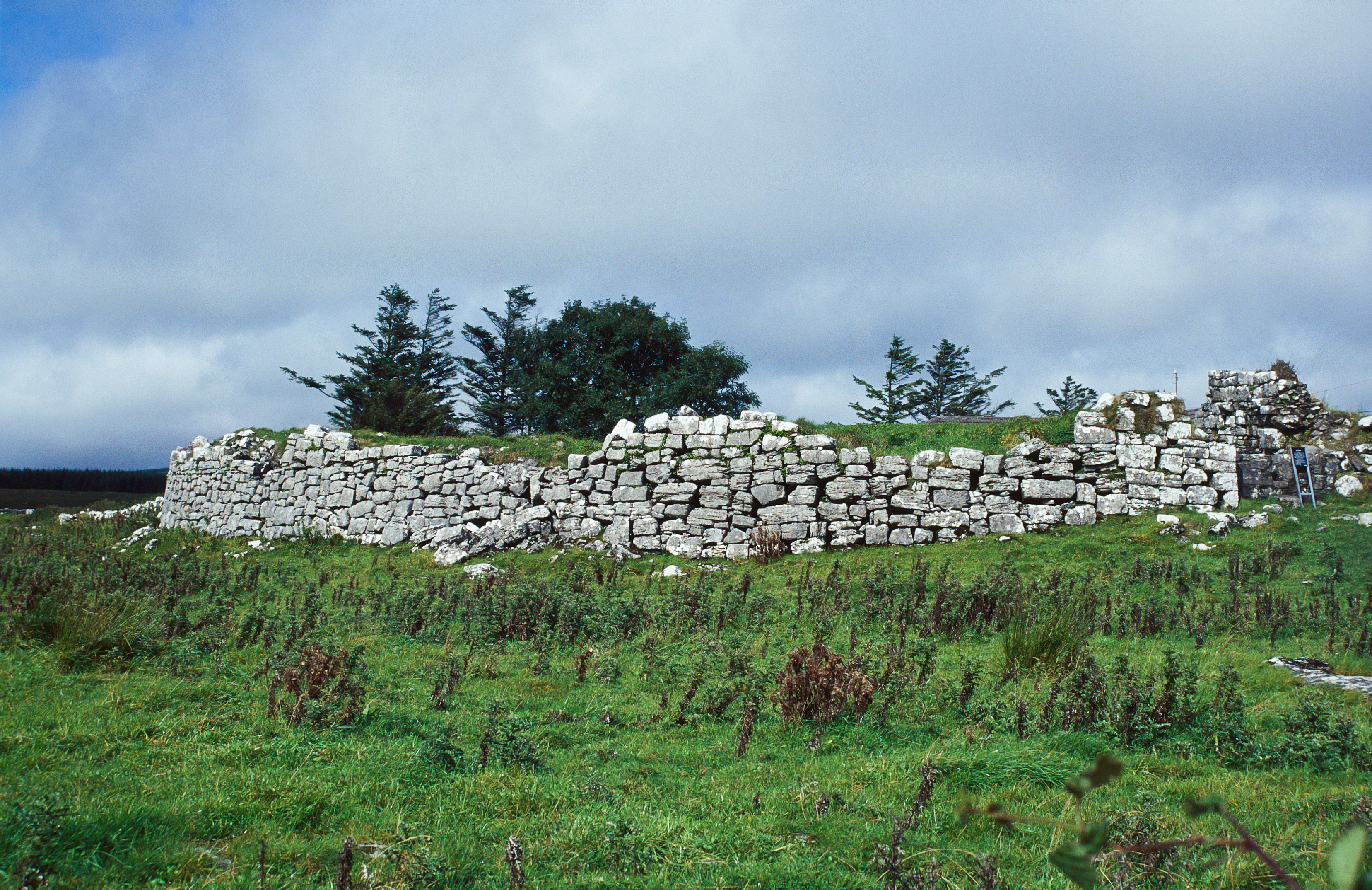 Ruins of a stone fort that was used by the 17th-century law school of Donal O'Davoren. A close signpost reads: This stone fort may have been built sometime in the Early Christian period. In the 17th century it was the home of the O'Davoren Law School where the famous genealogist Duald Mac Firbis studied under Donal O'Davoren. Known as O'Davoren's Town in 1675, it consisted then of a large house and a kitchen inside the walls as well as a 'house of the churchyard' and gardens outside. (Comment: It appears to be improbable that Duald Mac Firbis studied at this school under Donal O'Davoren, see James F. Kenney: The Sources for the Early History of Ireland: Ecclesiastical, p. 35.)